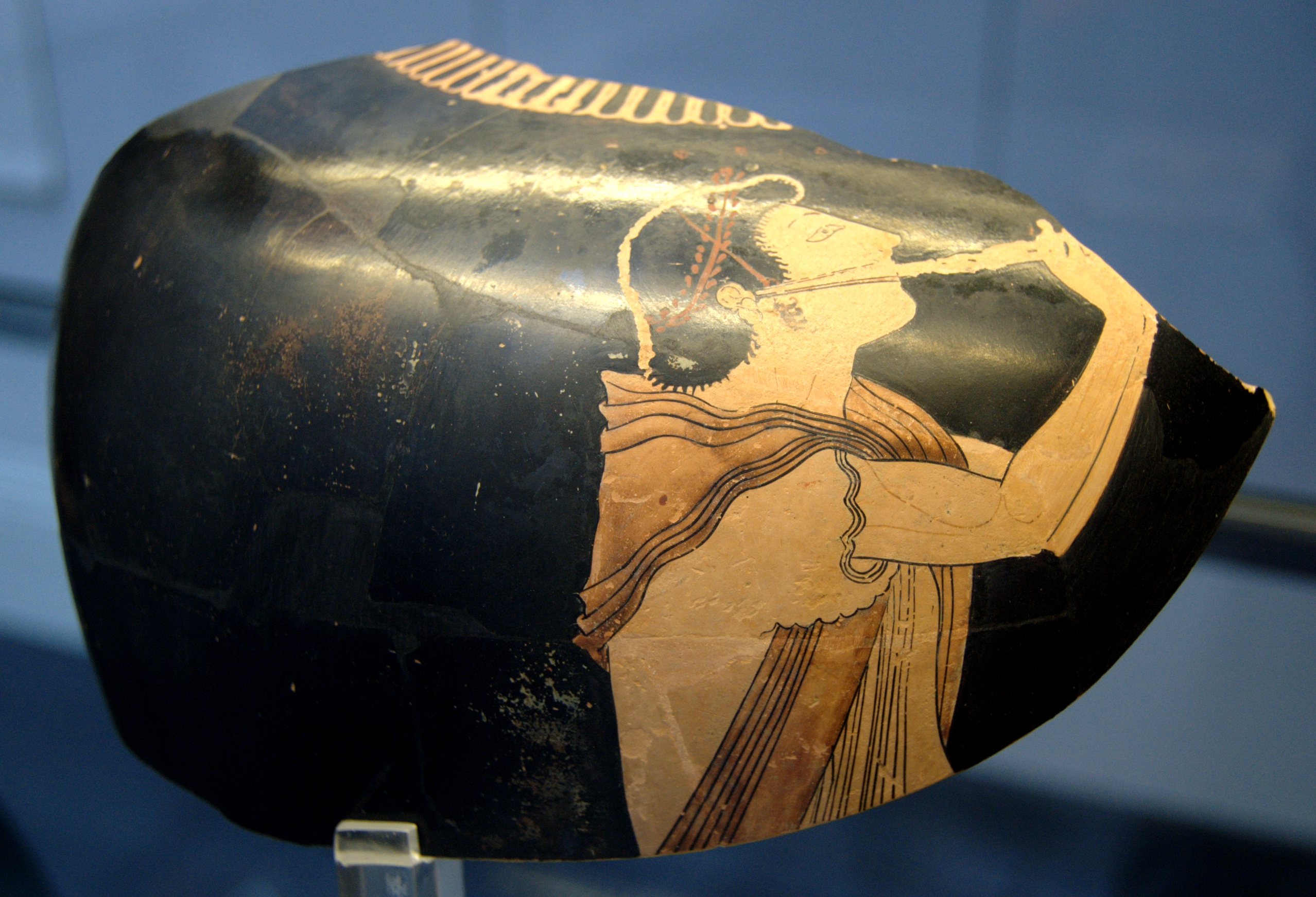 Aulos player. Fragment of an Attic red-figure amphora, ca. 510 BC.